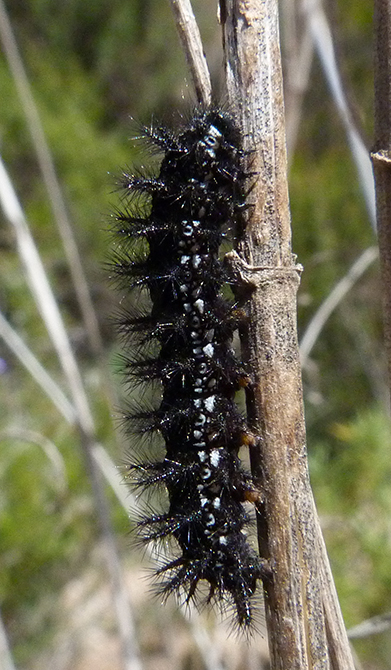 Caterpillar near Castellar (Aguilar de Segarra), Catalonia.